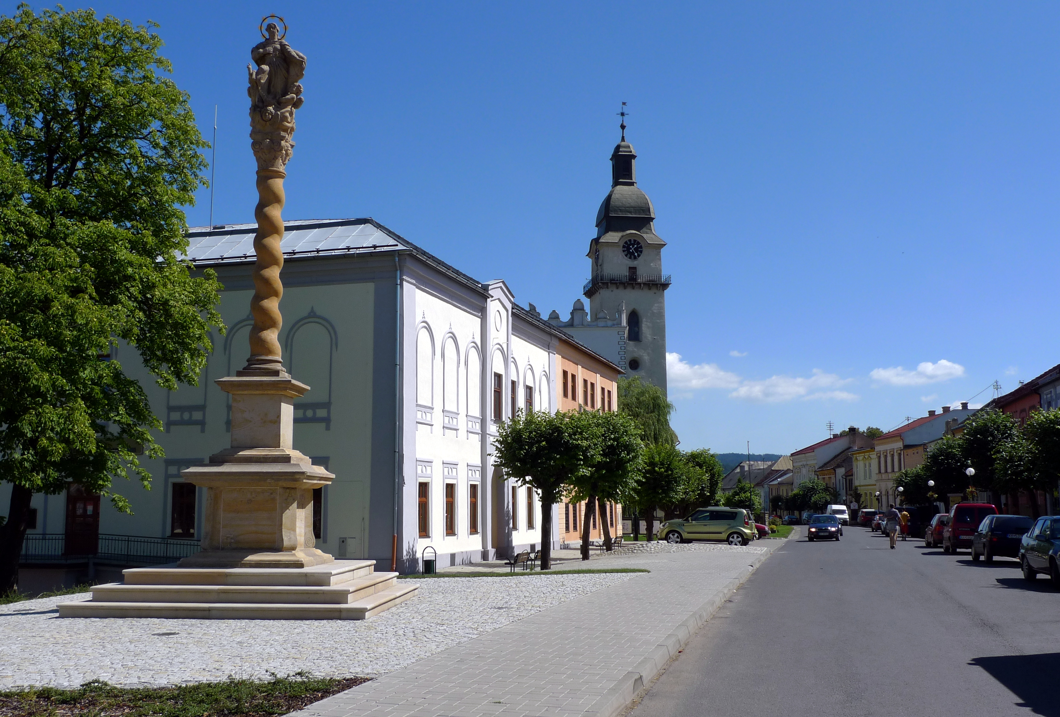 Spišská Belá, Slovakia